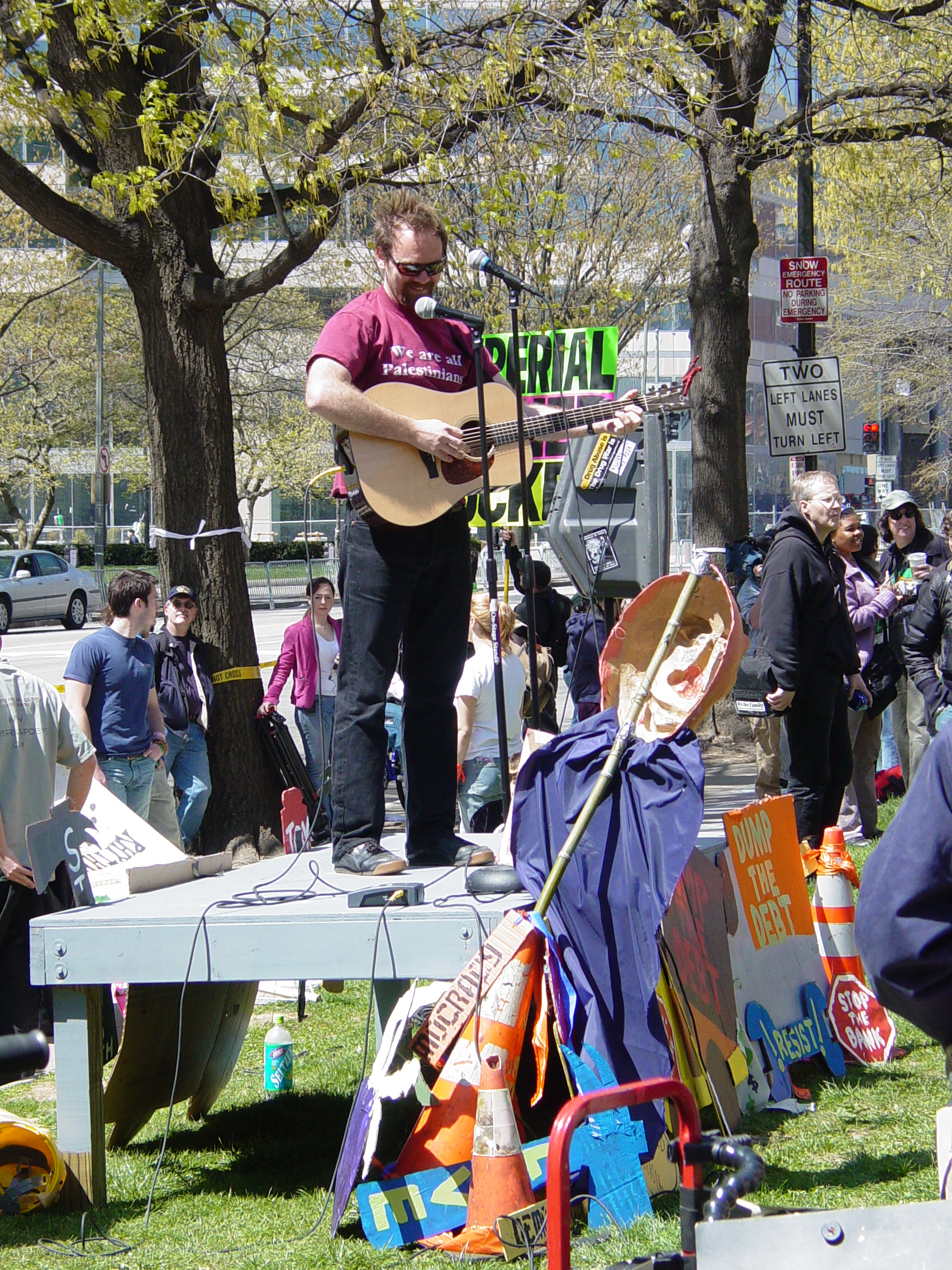 David Rovics sings his "Operation Iraqi Liberation" song at the A16 rally in Washington DC protesting the World Bank.